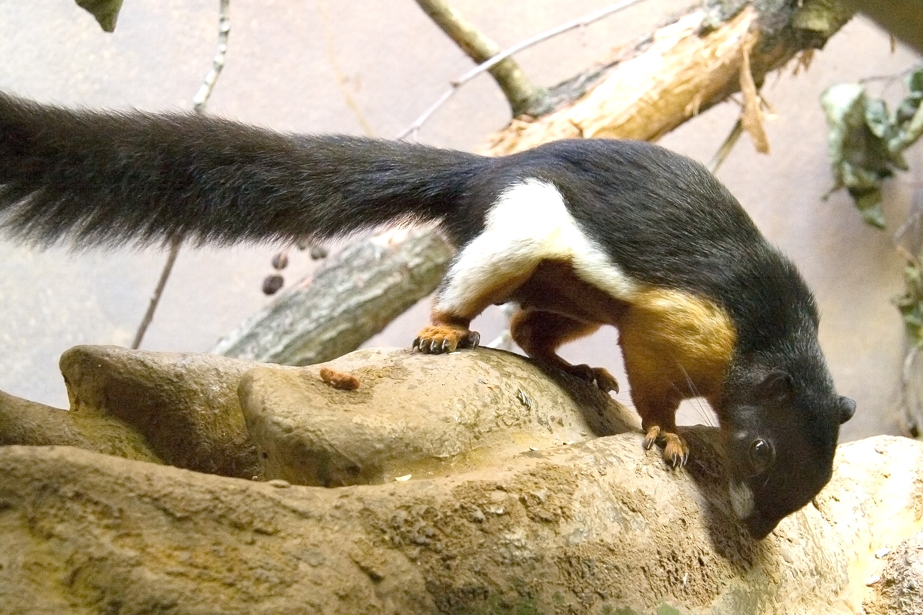 Prevost's Squirrel